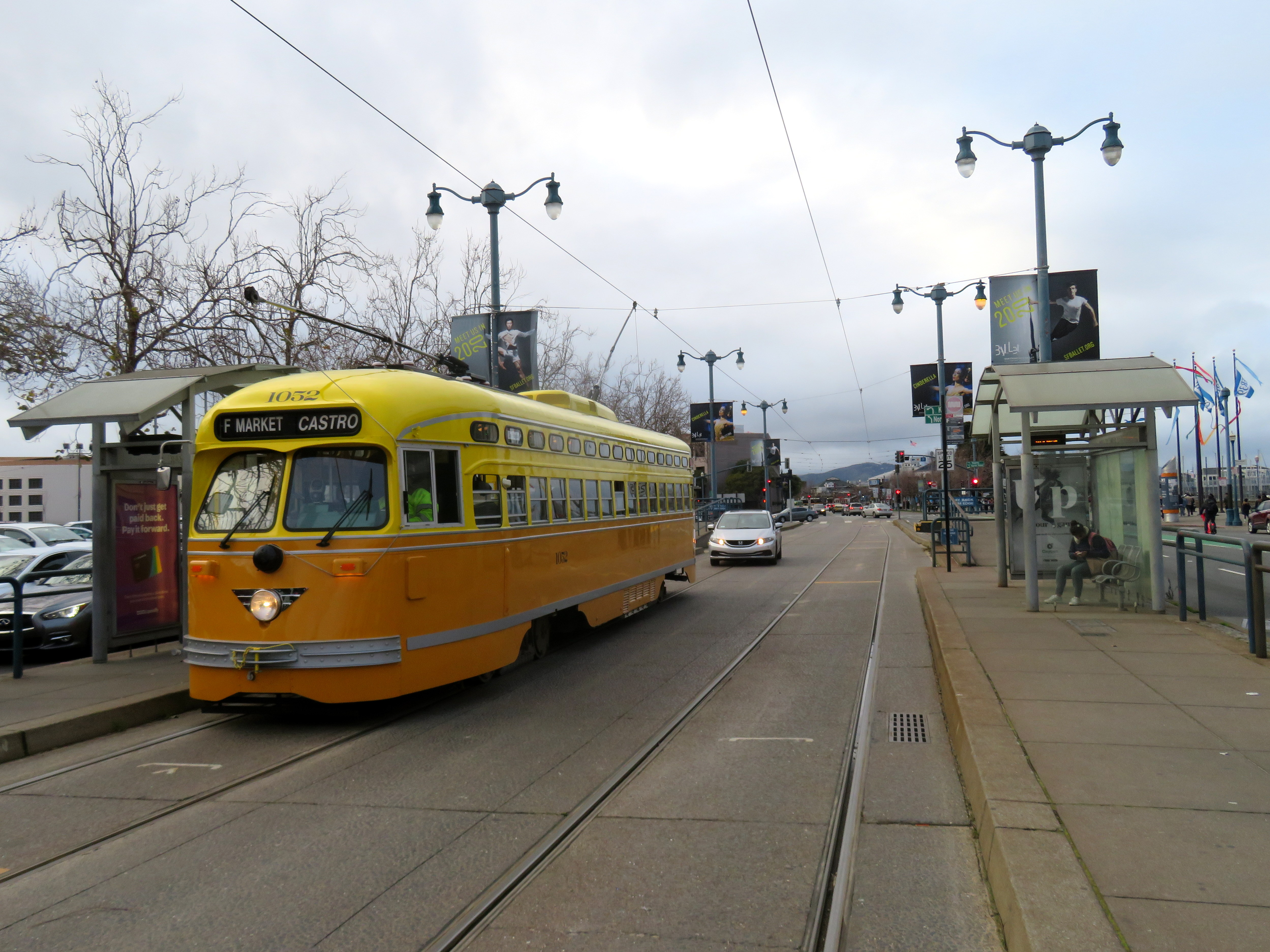 Muni 1052 southbound at The Embarcadero and Bay station in January 2020. A particularly clueless rideshare driver is illegally in the trackway behind the streetcar.